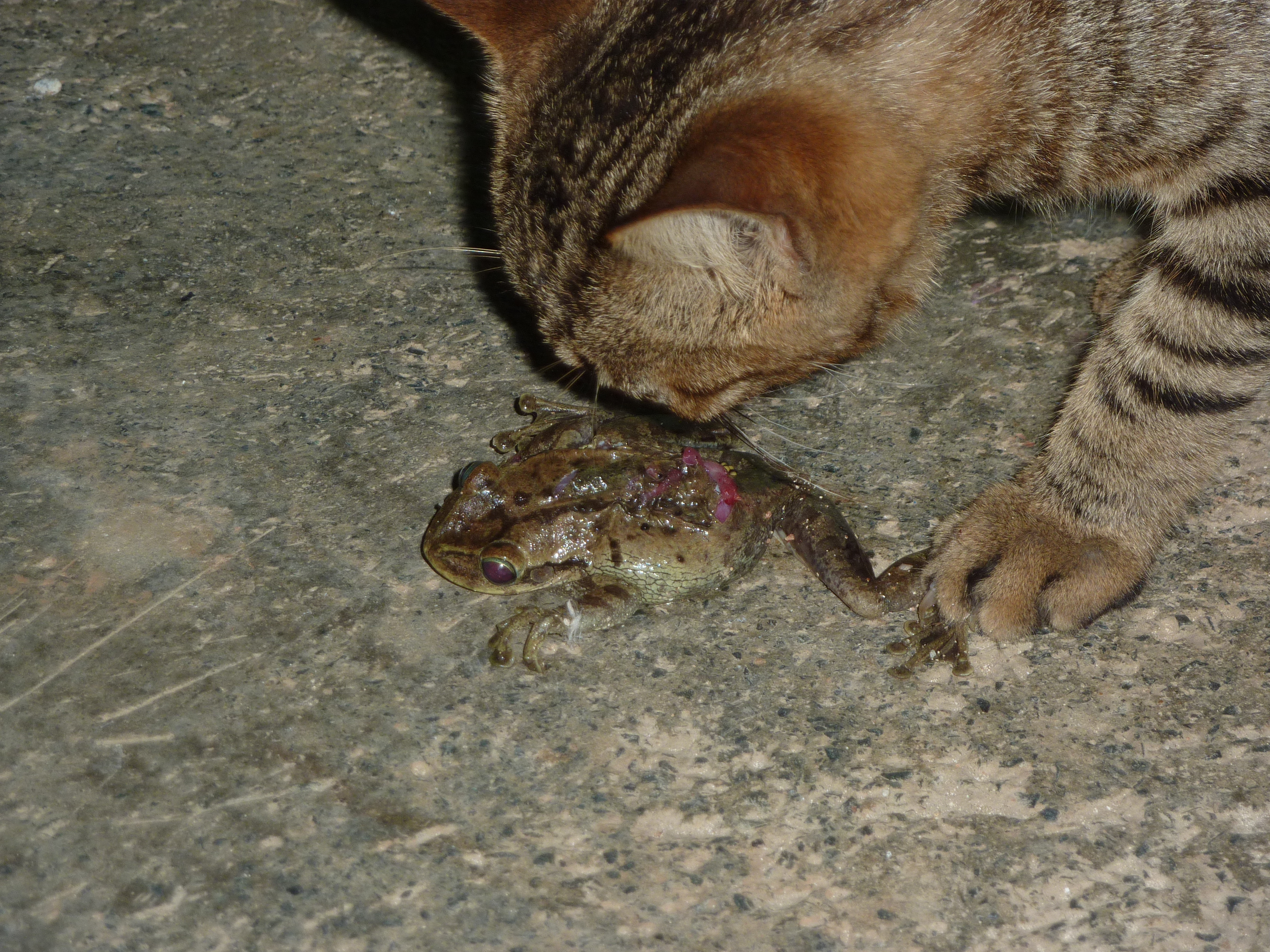 picture taken in El Seibo, Dominican Republic. A cat eating frog